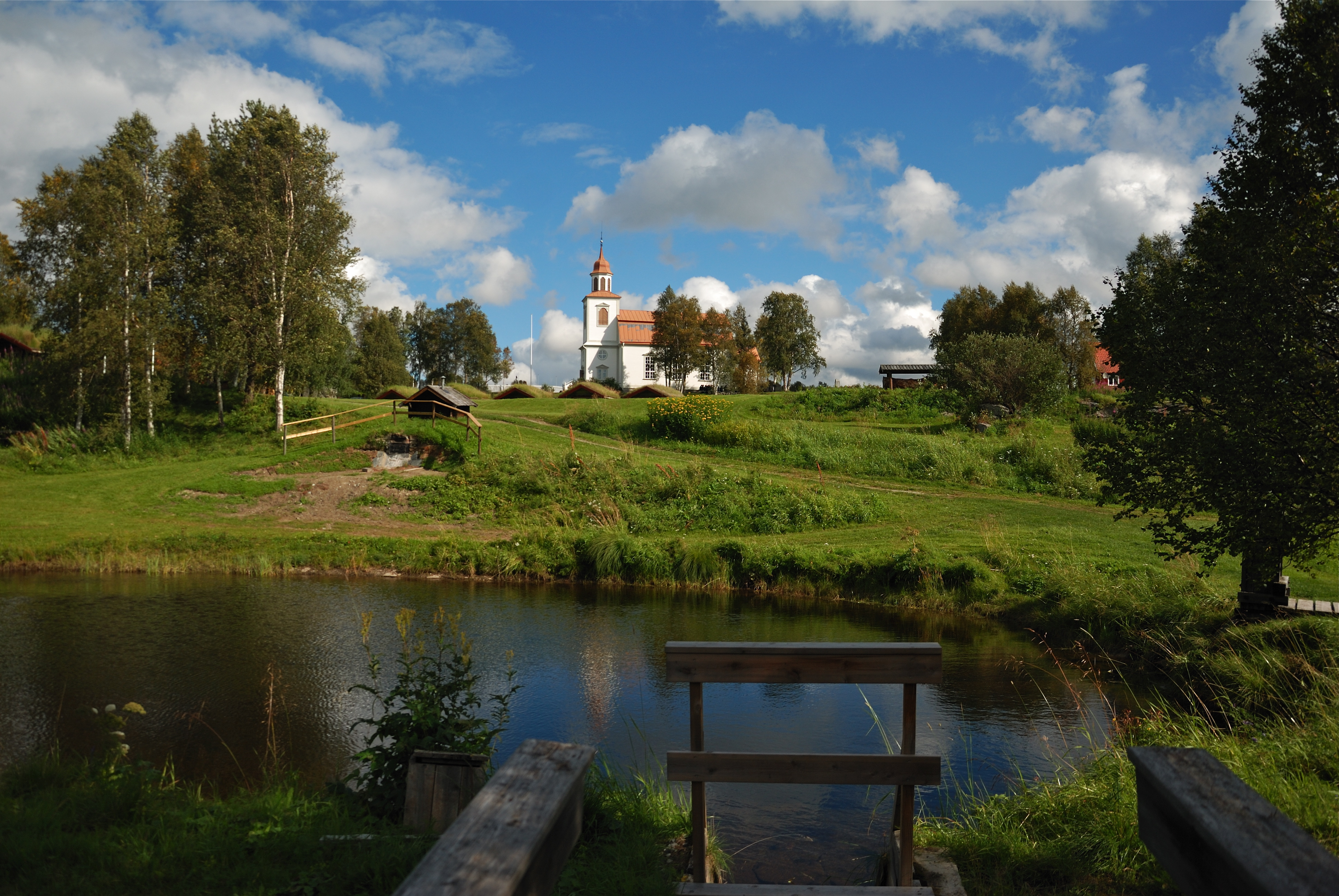 Ljusnedals kyrka (churche).